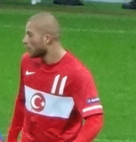 Gökhan in national team